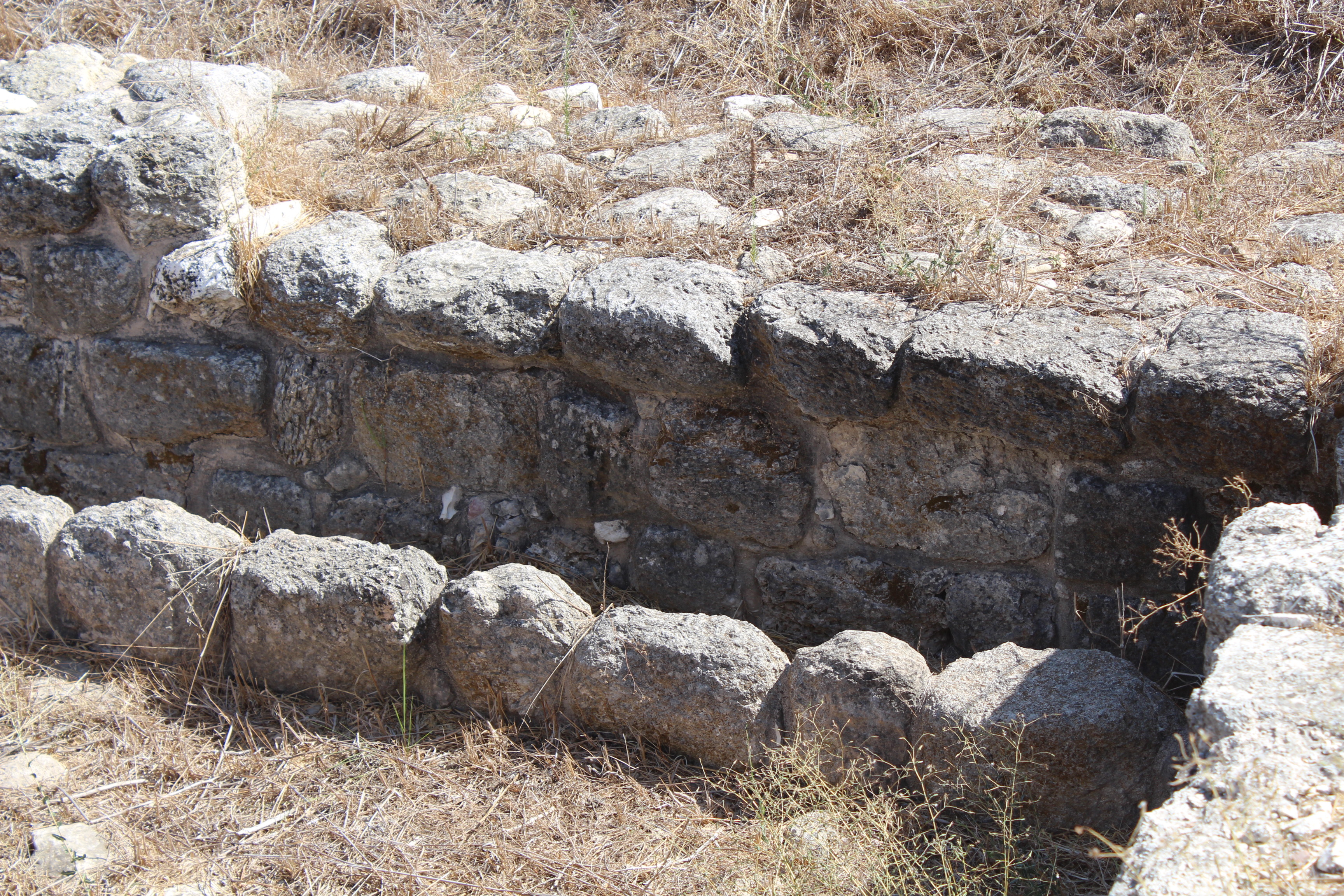 Crusader period remains - the main, western tower,Tel Yokneam The site's ID in Wiki Loves Monuments photographic competition is 16-0240-100